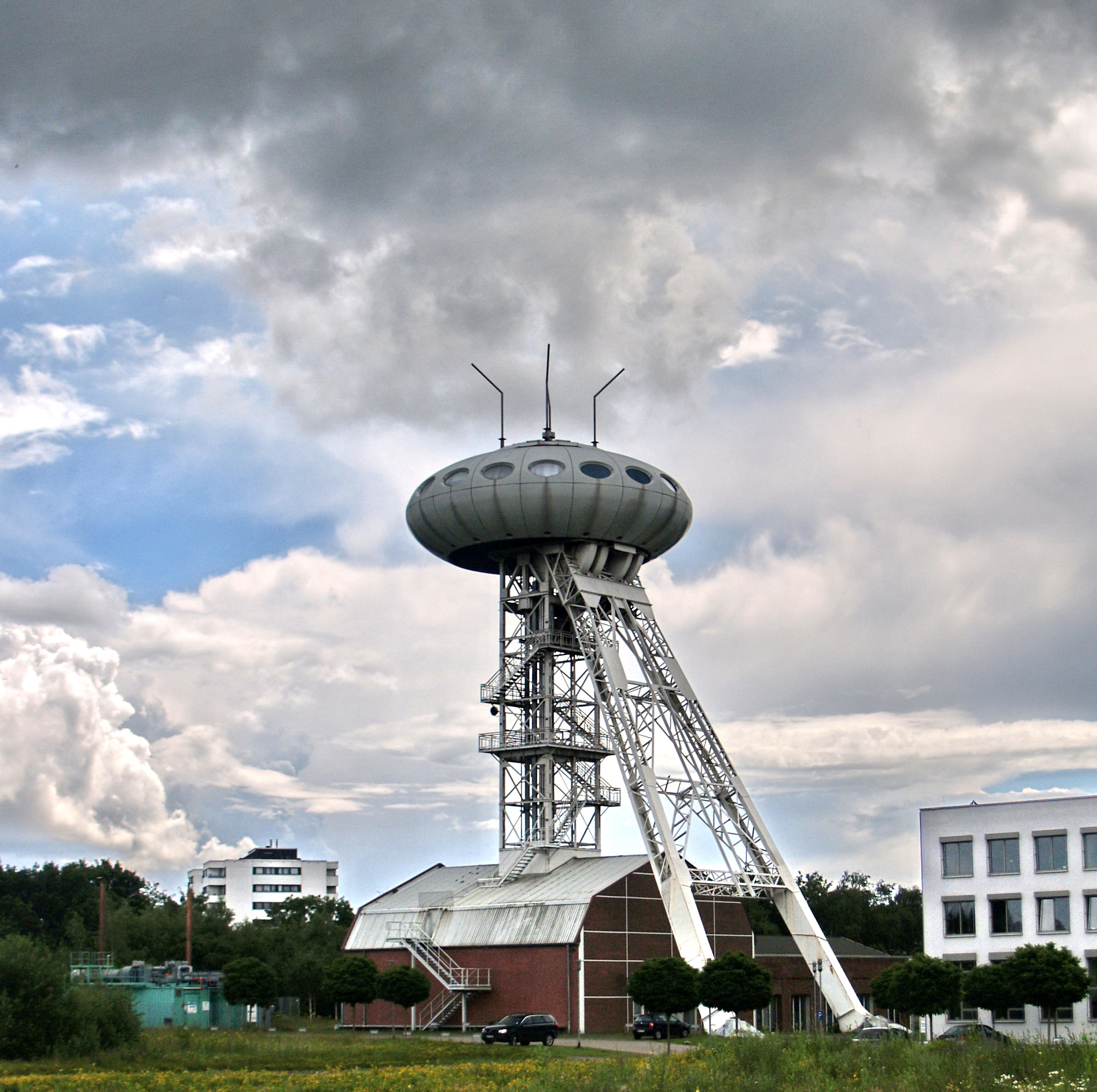 The 'Colani egg' on the pit of the former coal mine Minister Achenbach 4 at Lünen, Germany